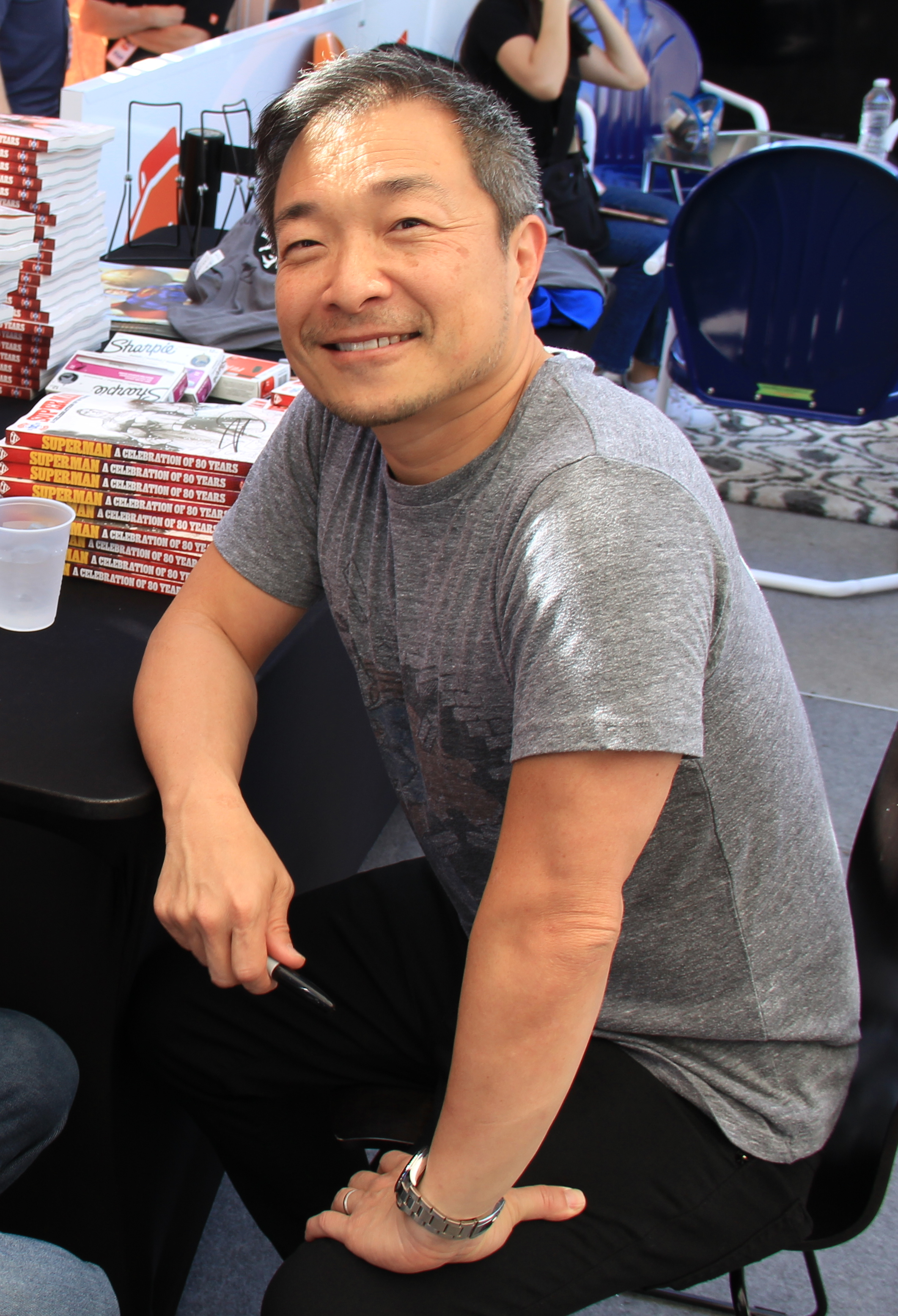 Panel at SXSW 2018 on Superman's 80th anniversary and the release of Action Comics #1000.